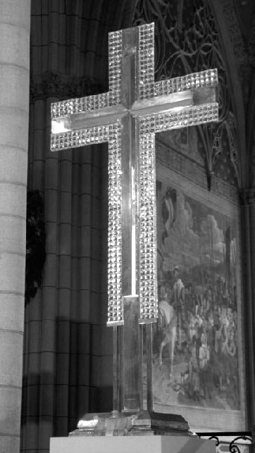 Högkorskorset i Uppsala domkyrka av skulptör och silversmed Bertil Berggren Askenström 1976.